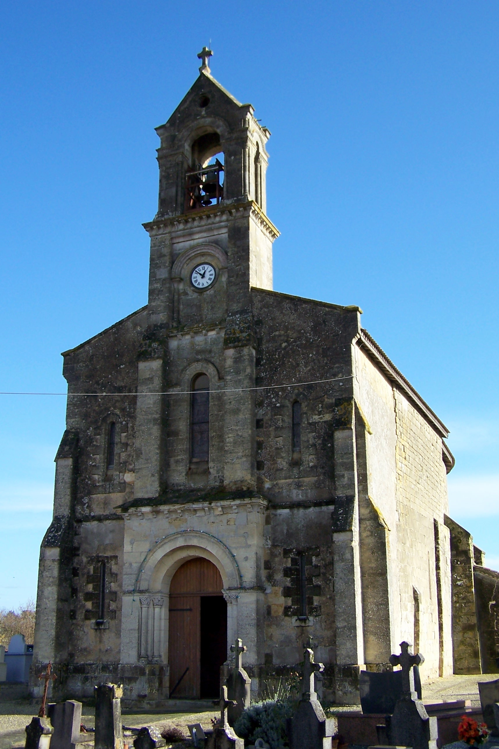 Church of Sendets (Gironde, France)